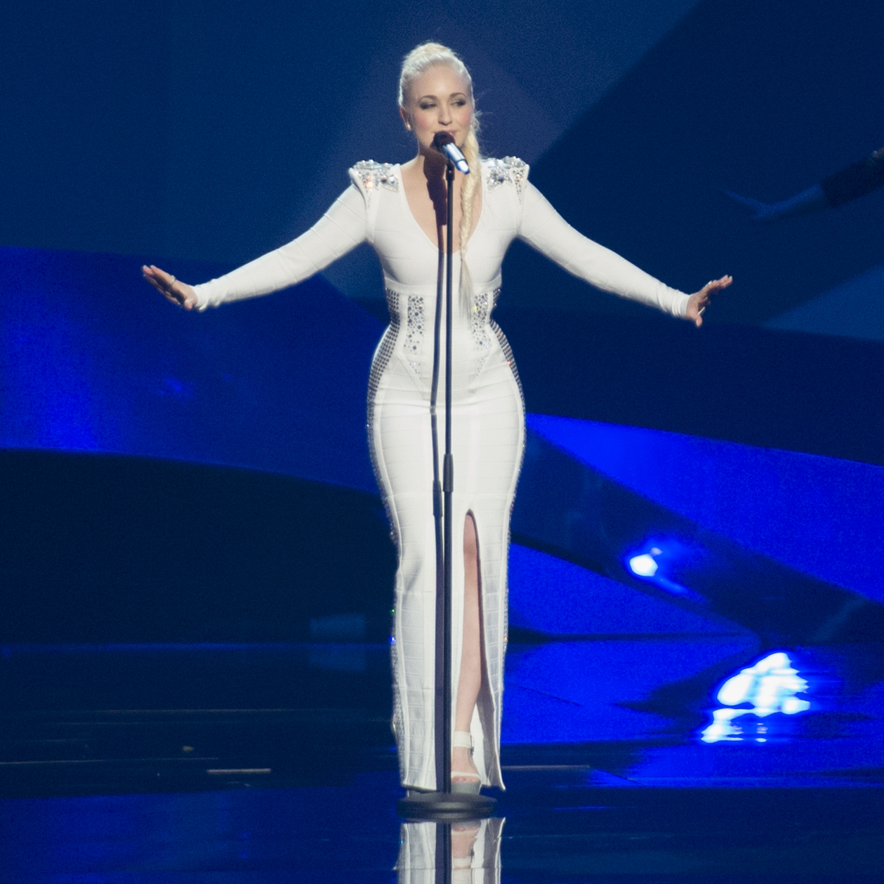 Margaret Berger representing Norway with the song "I Feed You My Love" during the second dress rehearsal of the second semi final of the Eurovision Song Contest 2013 in Malmö. (Help translate this text)